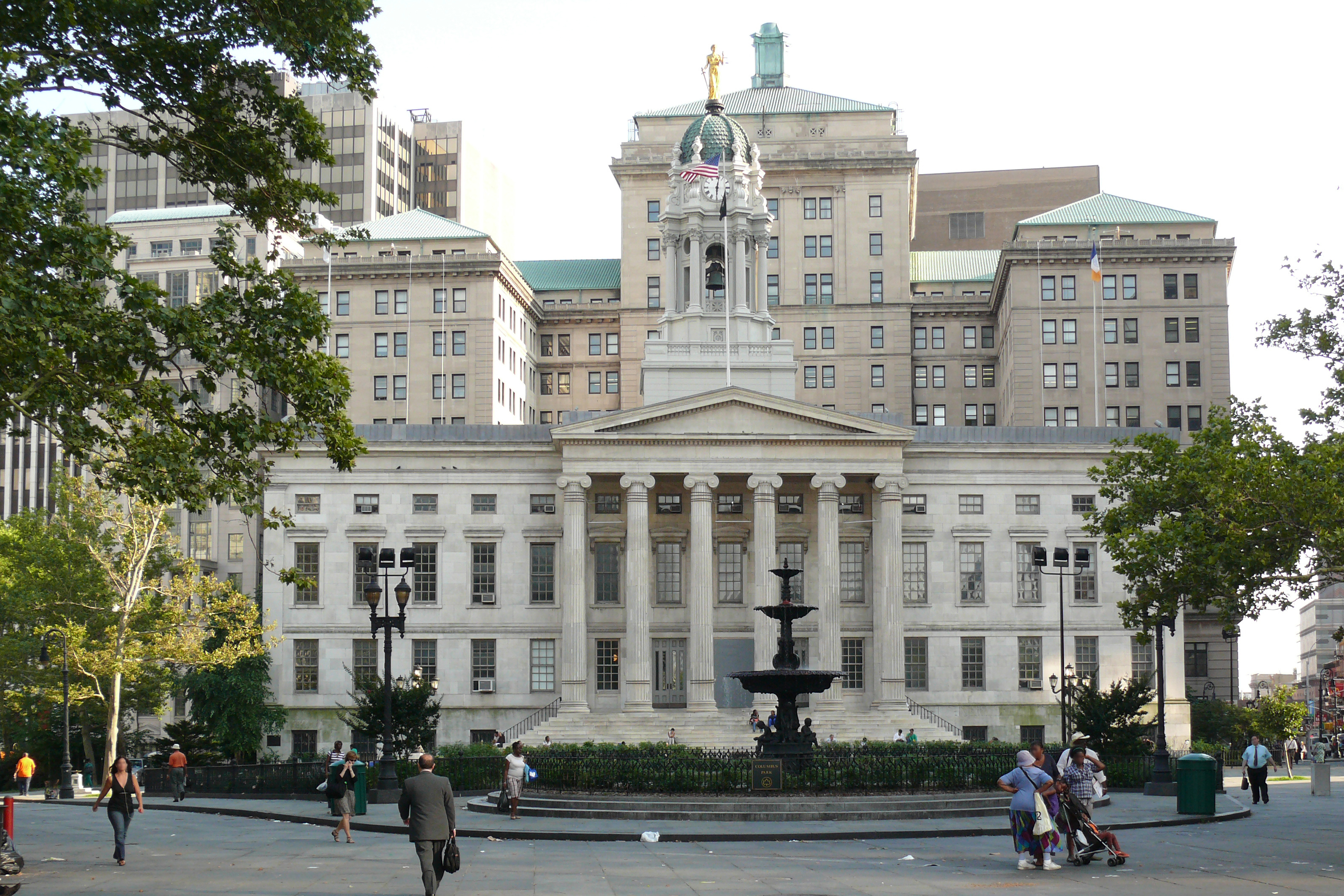 Brooklyn Borough Hall was designed in 1835 by architect Gamaliel King, and constructed under the supervision of superintendent Stephen Haynes. It was completed in 1849 to be used as the City Hall of the City of Brooklyn.